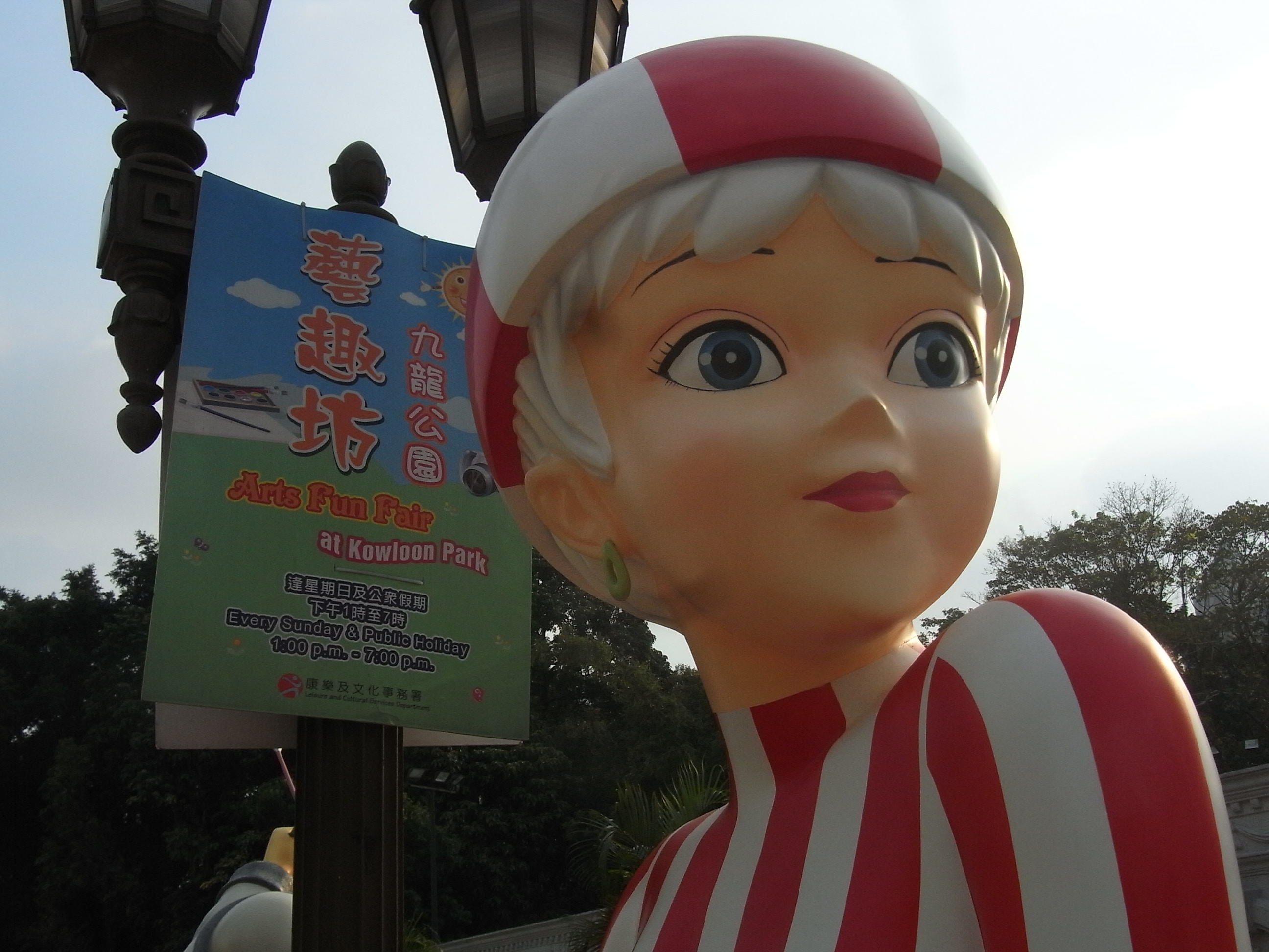 香港漫畫星光大道, Hong Kong Avenue of Comic Stars, Kowloon Park, Nathan Road, Tsim Sha Tsui, Hong Kong